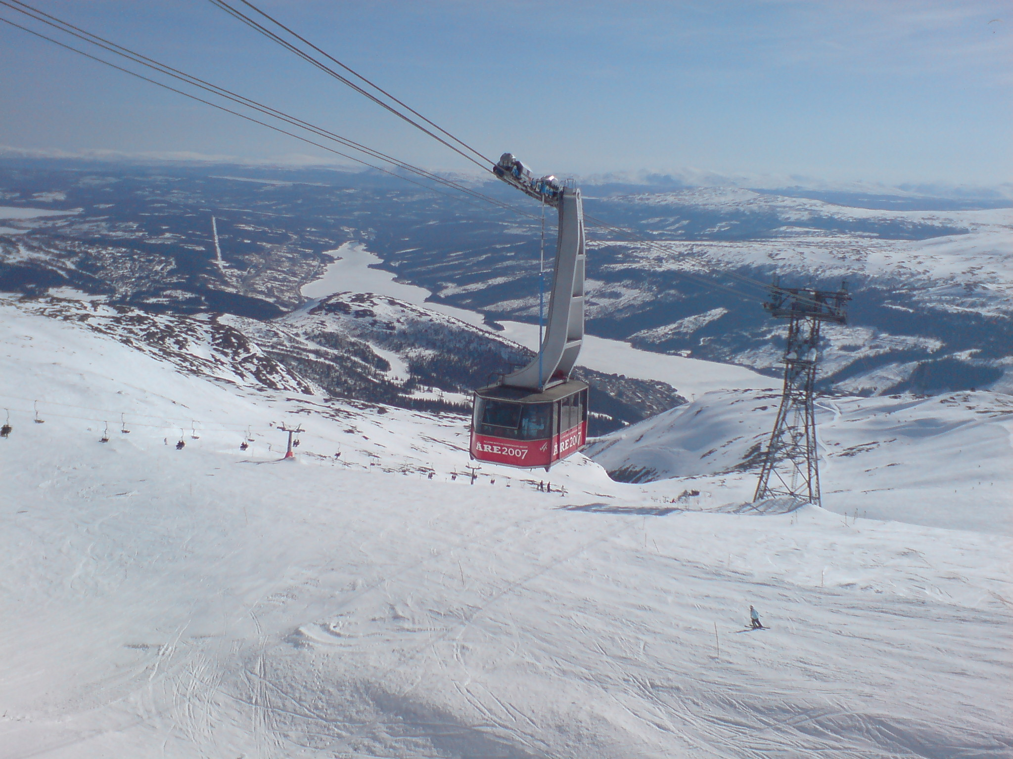 Åre kabinbana.